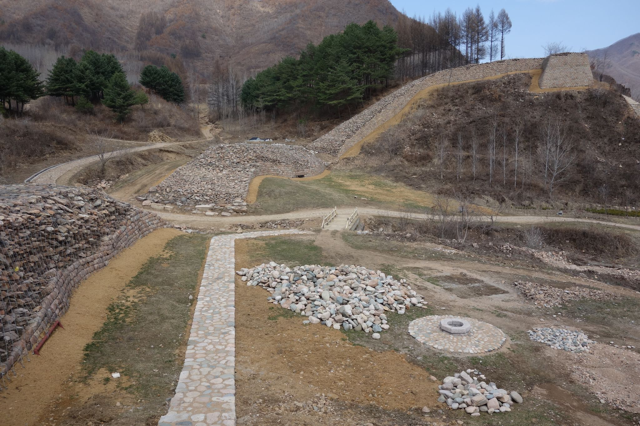 Wall snaking up incline at Hwando Mountain Fortress